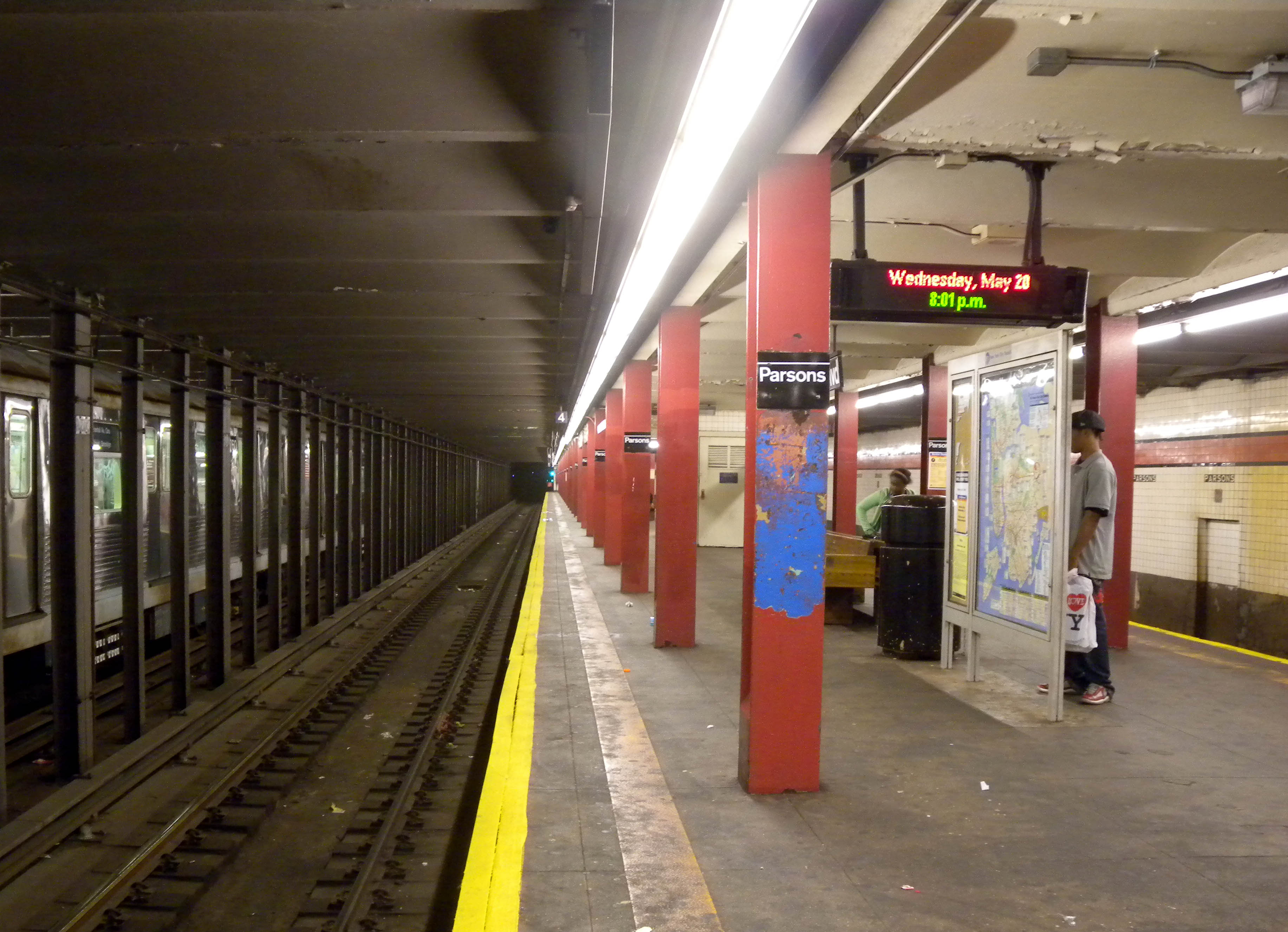 Looking west along the southbound platform of Parsons Boulevard (IND Queens Boulevard Line).